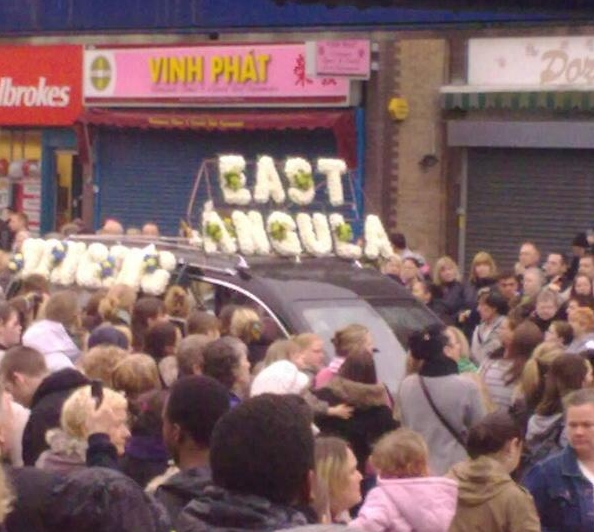 Vehicle in Jade Goody's funeral cortege showing a catchphrase "East Angular"